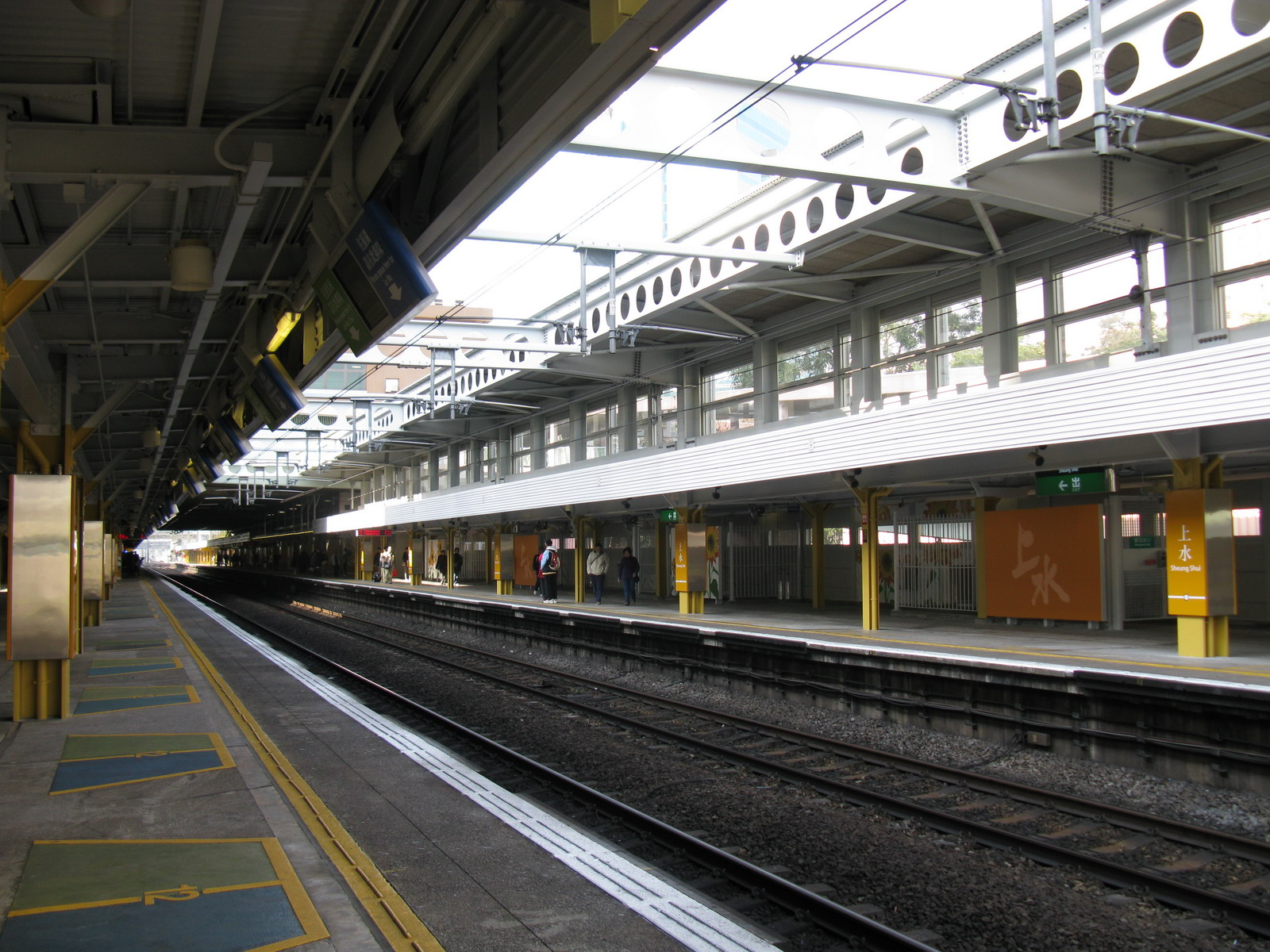 East Rail Line Platform of Sheung Shui Station